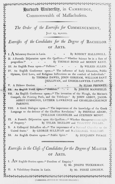 Harvard University, in Cambridge, commonwealth of Massachusetts. The order of the exercises for commencement, July 15, 1801. Printed by William Hilliard, Cambridge. Participants include J.A. Cummings.